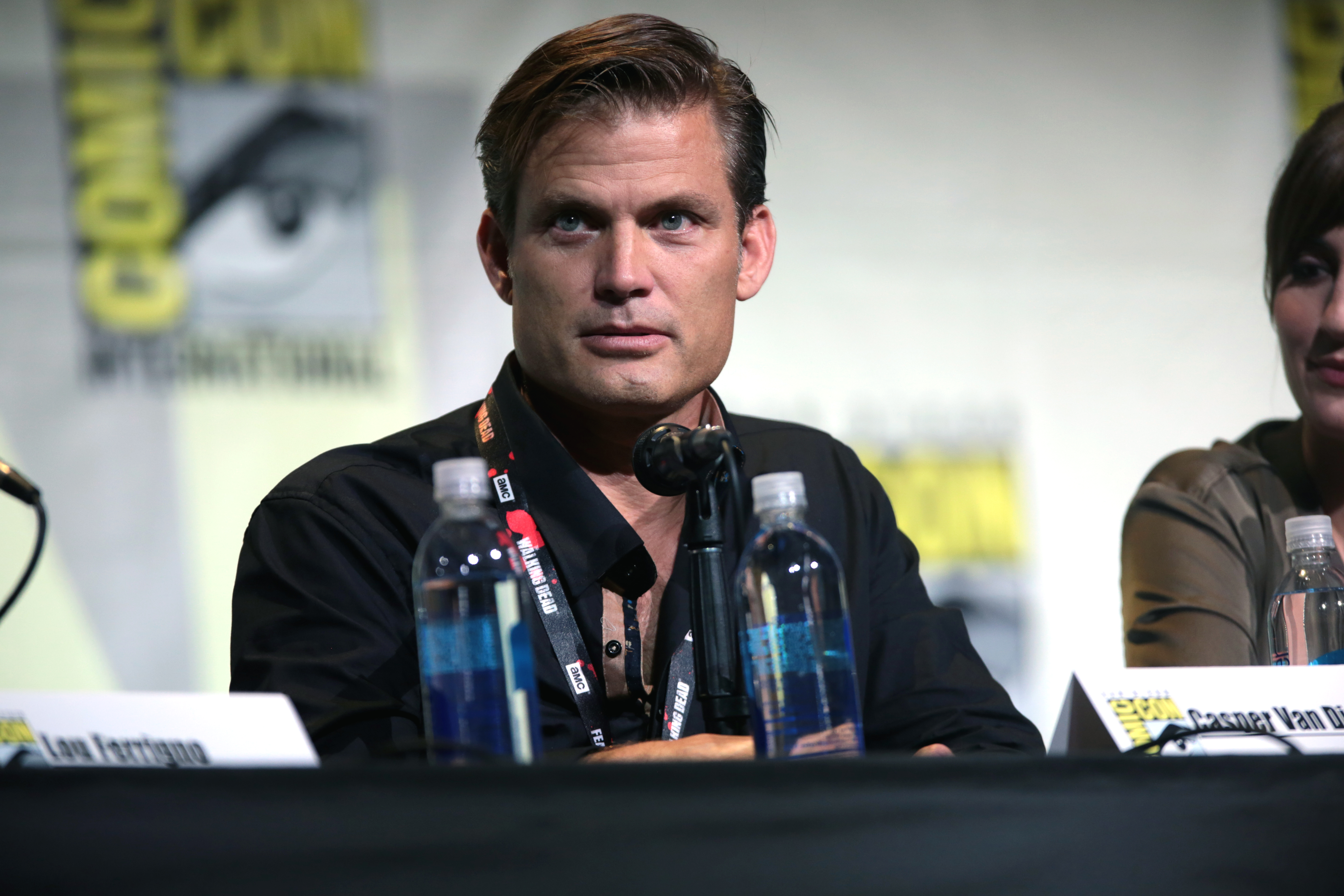 Casper Van Dien speaking at the 2016 San Diego Comic Con International, for "Con Man", at the San Diego Convention Center in San Diego, California.